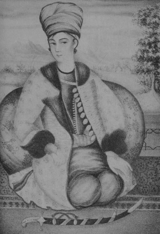 Lotf Ali Khan, from a picture in a Shiraz palace as of 1915